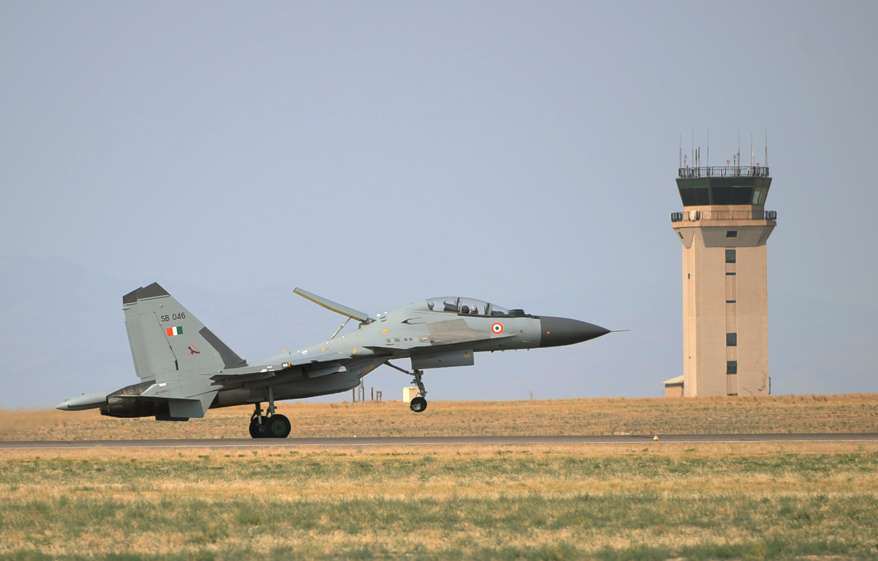 MOUNTAIN HOME AIR FORCE BASE, Idaho -- An Indian air force SU-30MKI jet touches down at Mountain Home Air Force Base, along with seven others, July 17 to train with Mountain Home Air Force Base Airmen before participating in Exercise Red Flag at Nellis AFB, Nev., which begins Aug. 9. This is the first time in history the Indian air force has been on American soil to train with U.S. fighters. They will be taking advantage of Mountain Home's vast air space and multiple ranges to better prepare their aircrews for future flying missions.